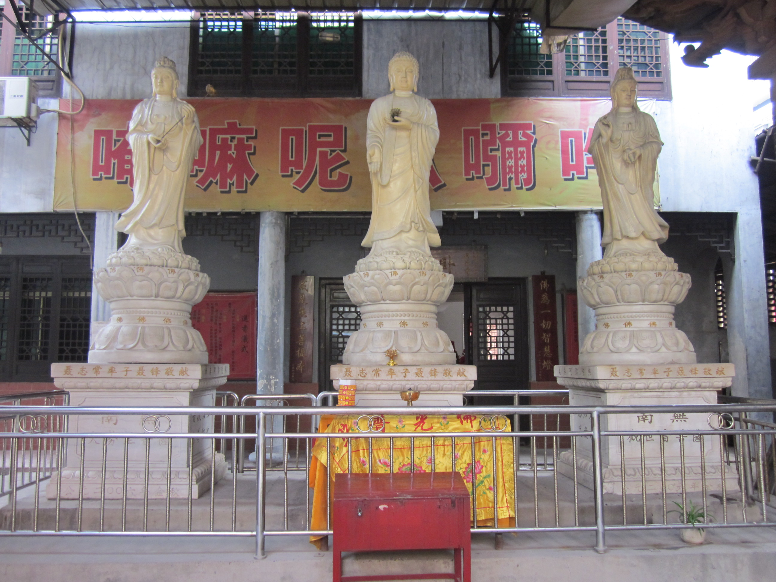 Statues of Three Sages at Wenjin Temple, in Liuyang, Hunan, China. Wenjin Temple (Chinese: 问津寺), is a Buddhist temple located in Liuyang City, Hunan Province in the People's Republic of China.